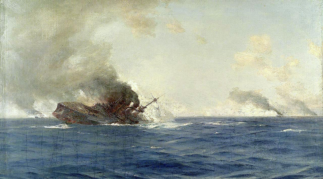 Sinking of the German cruiser SMS Scharnhorst in the Battle of the Falkland Islands, 8 December 1914